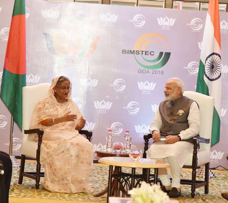 Met PM Sheikh Hasina & discussed bilateral relations between India and Bangladesh.